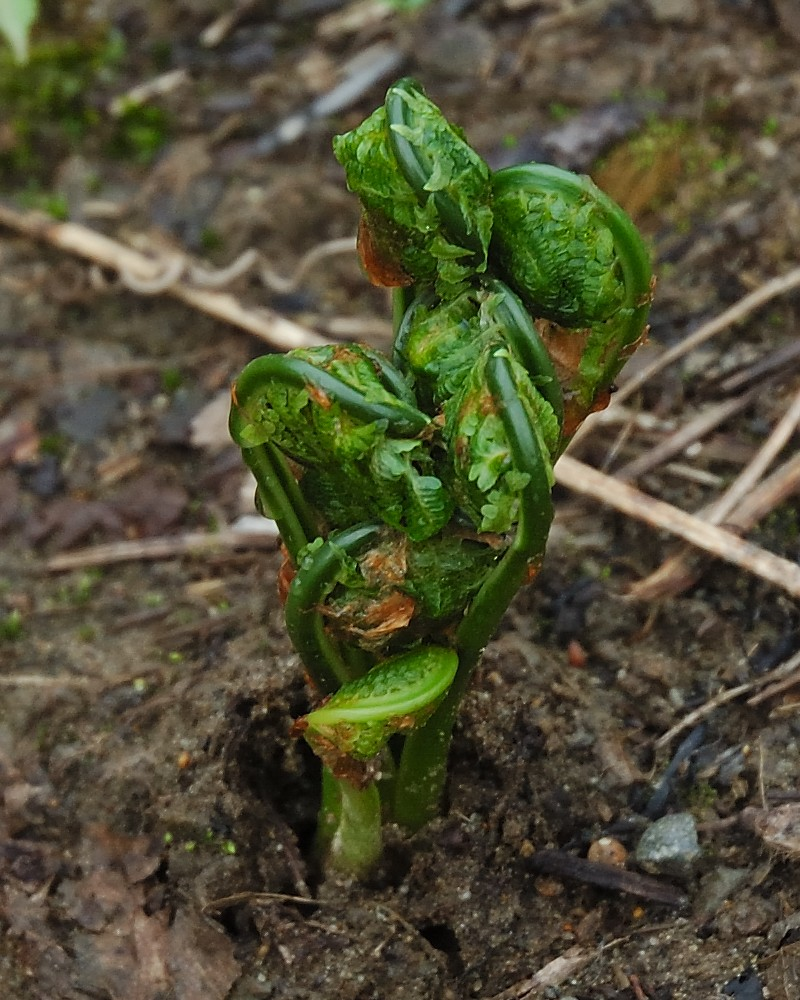 Matteuccia struthiopteris (コゴミ)